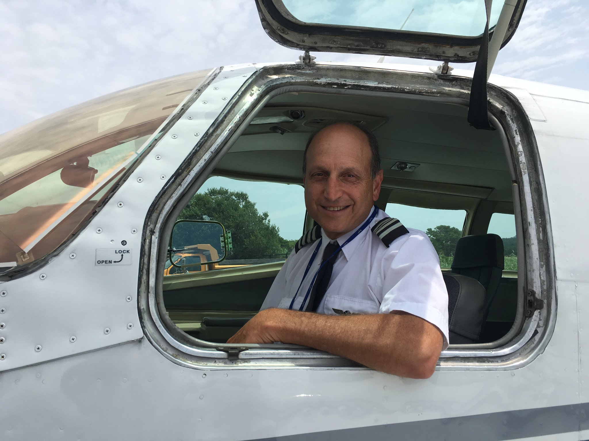 CapeAir founder and former Massachusetts State Senator Dan Wolf